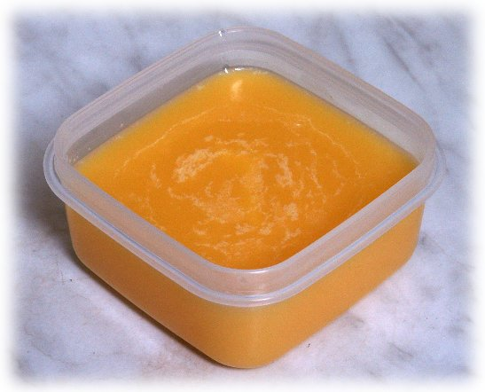 Home-made clarified butter solidified in a plastic container